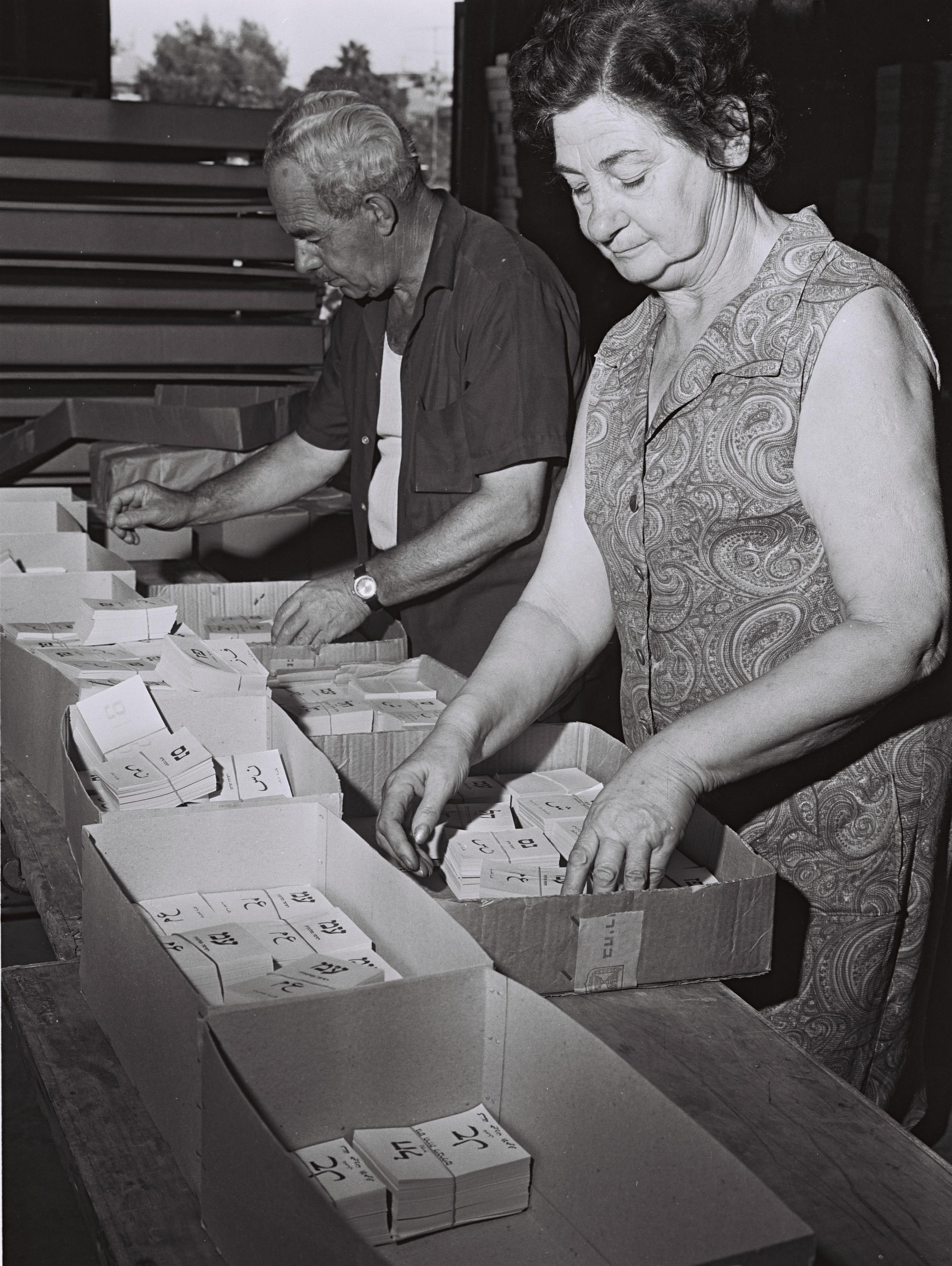 PREPARING PARCELS OF BALLOT TICKETS OF ALL PARTIES FOR DESPATCH TO POLLING STATIONS BEFORE ELECTION DAY.